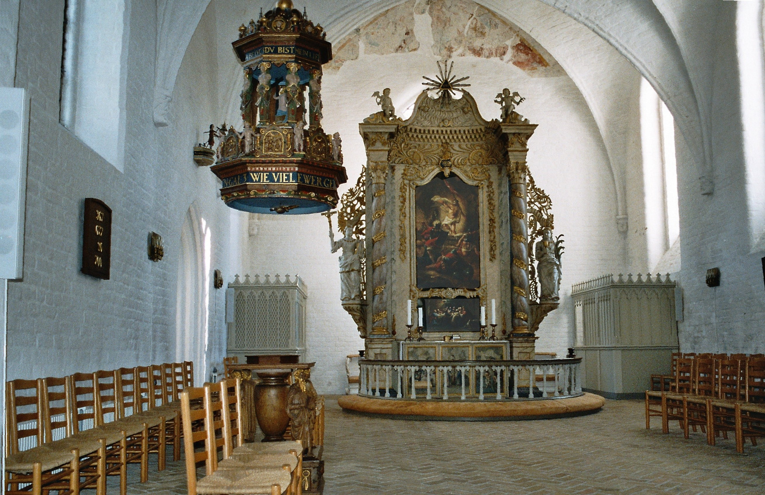 Kliplev (Aabenraa Kommune), village church, the altar